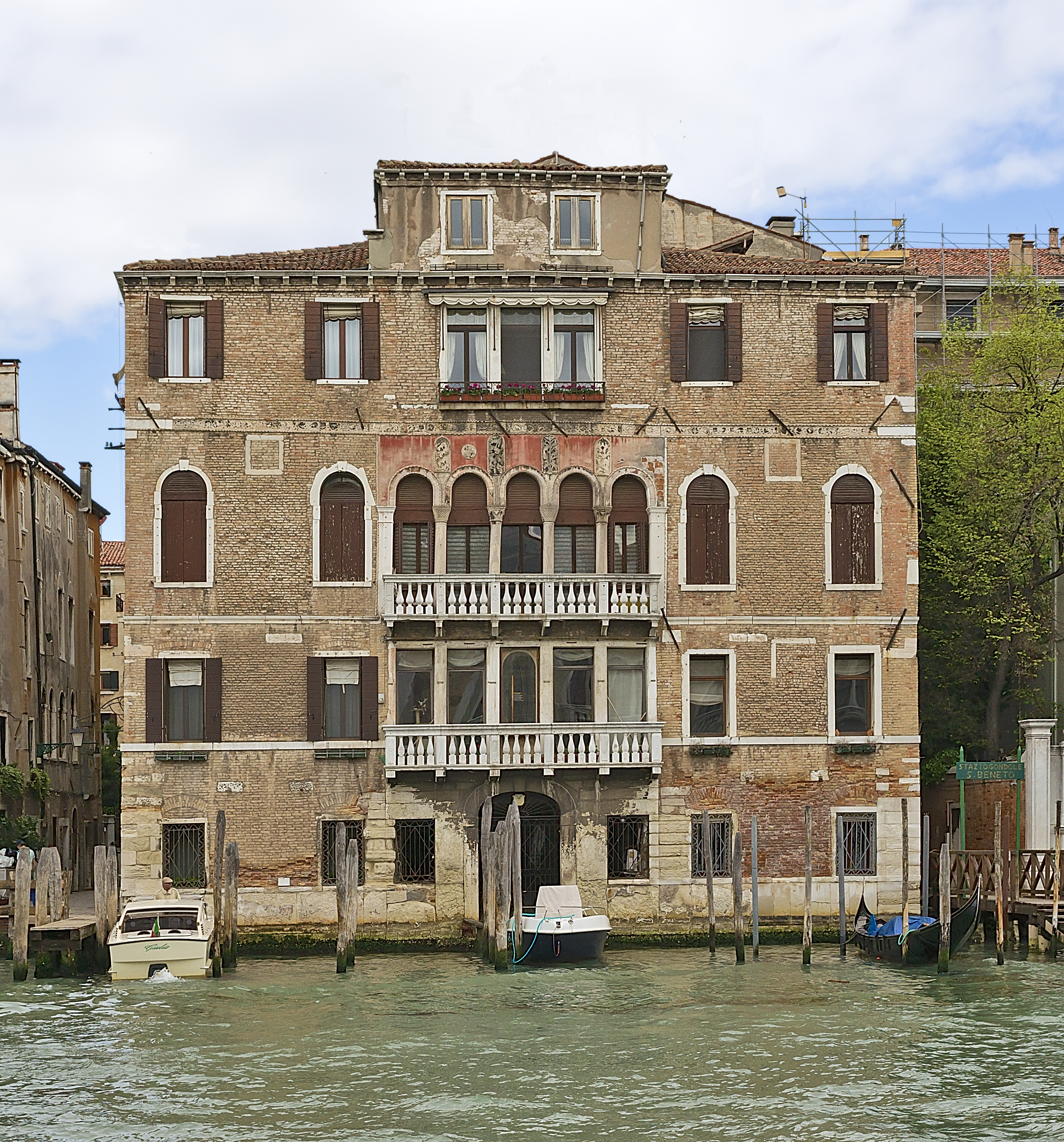 Palazzo Donà della Trezza Venice. Facade on Grand Canal.